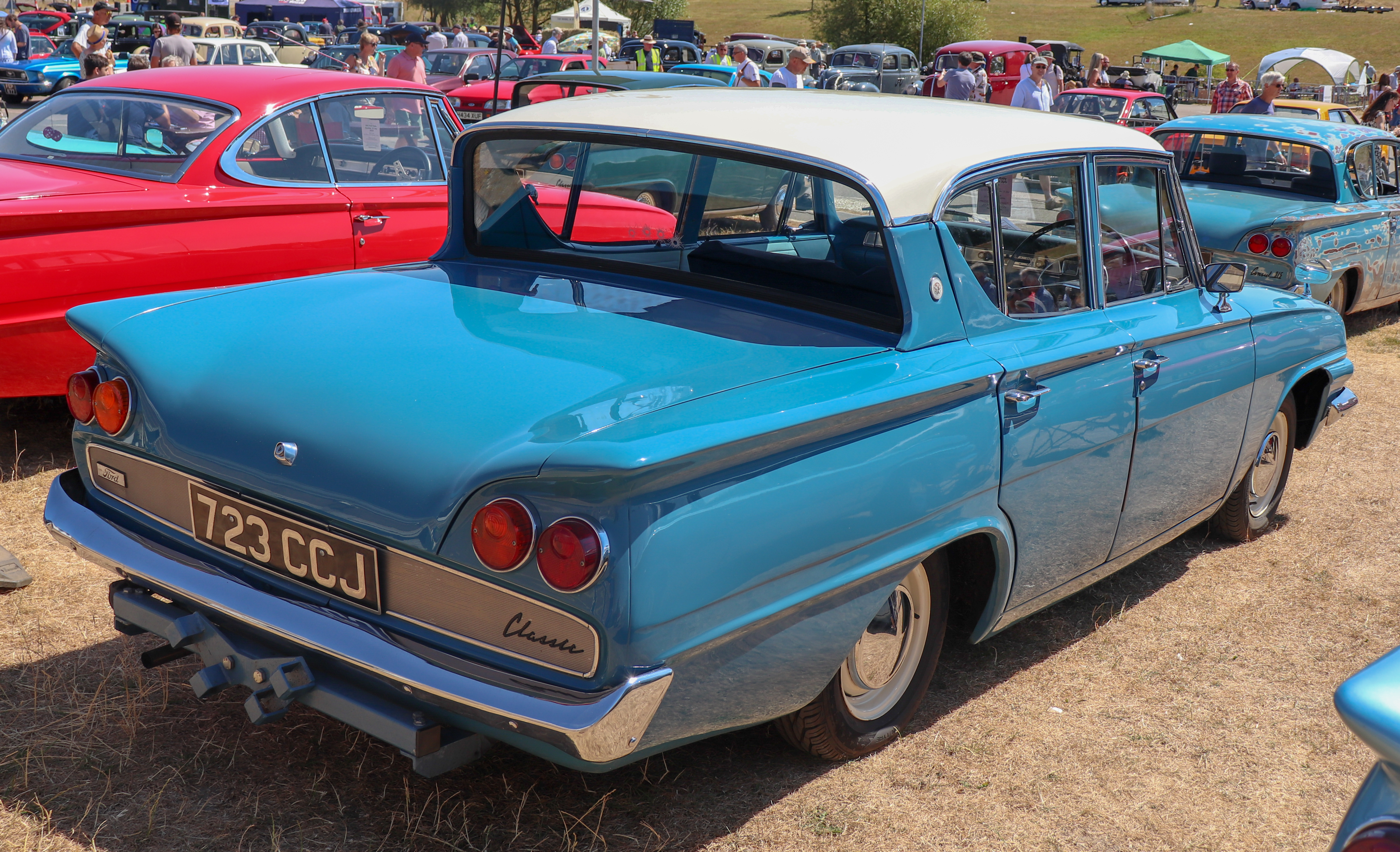 1963 Ford Consul Classic 1.5 Rear Taken at the British Motor Museum Old Ford Rally 2018, Gaydon